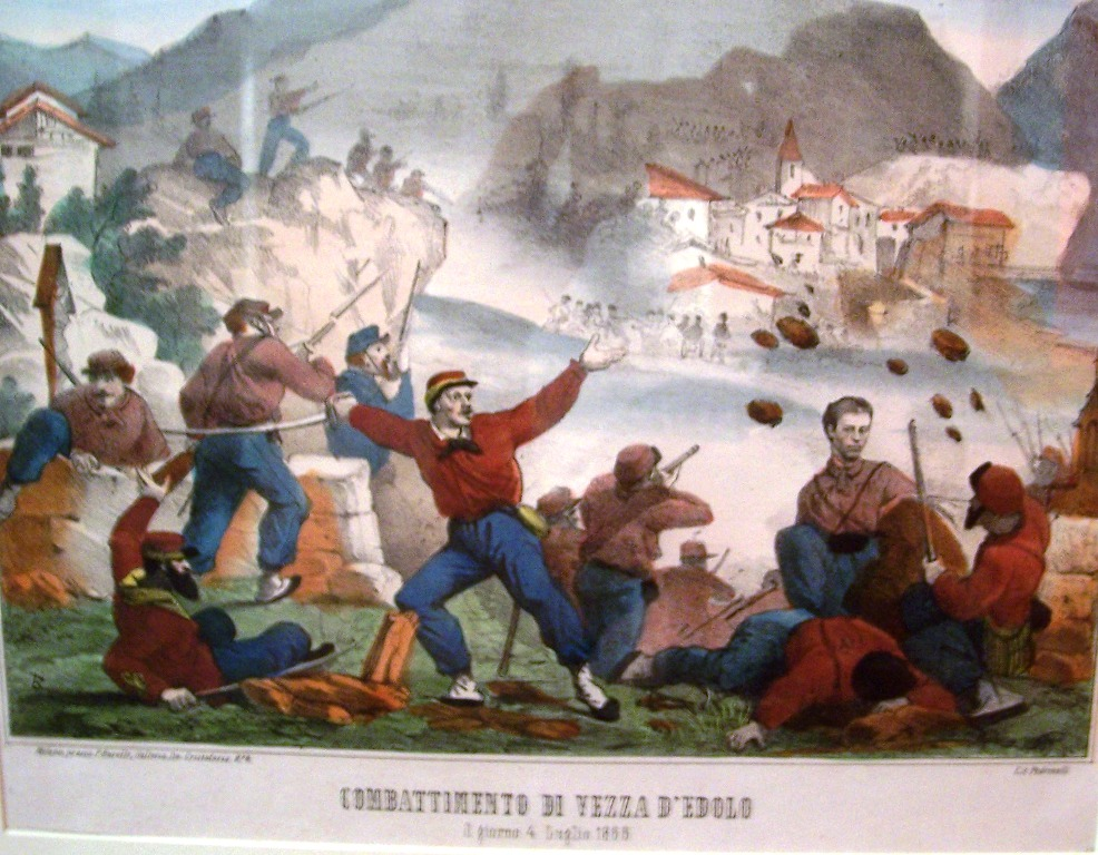 Battle of Vezza. Castle Museum in Brescia